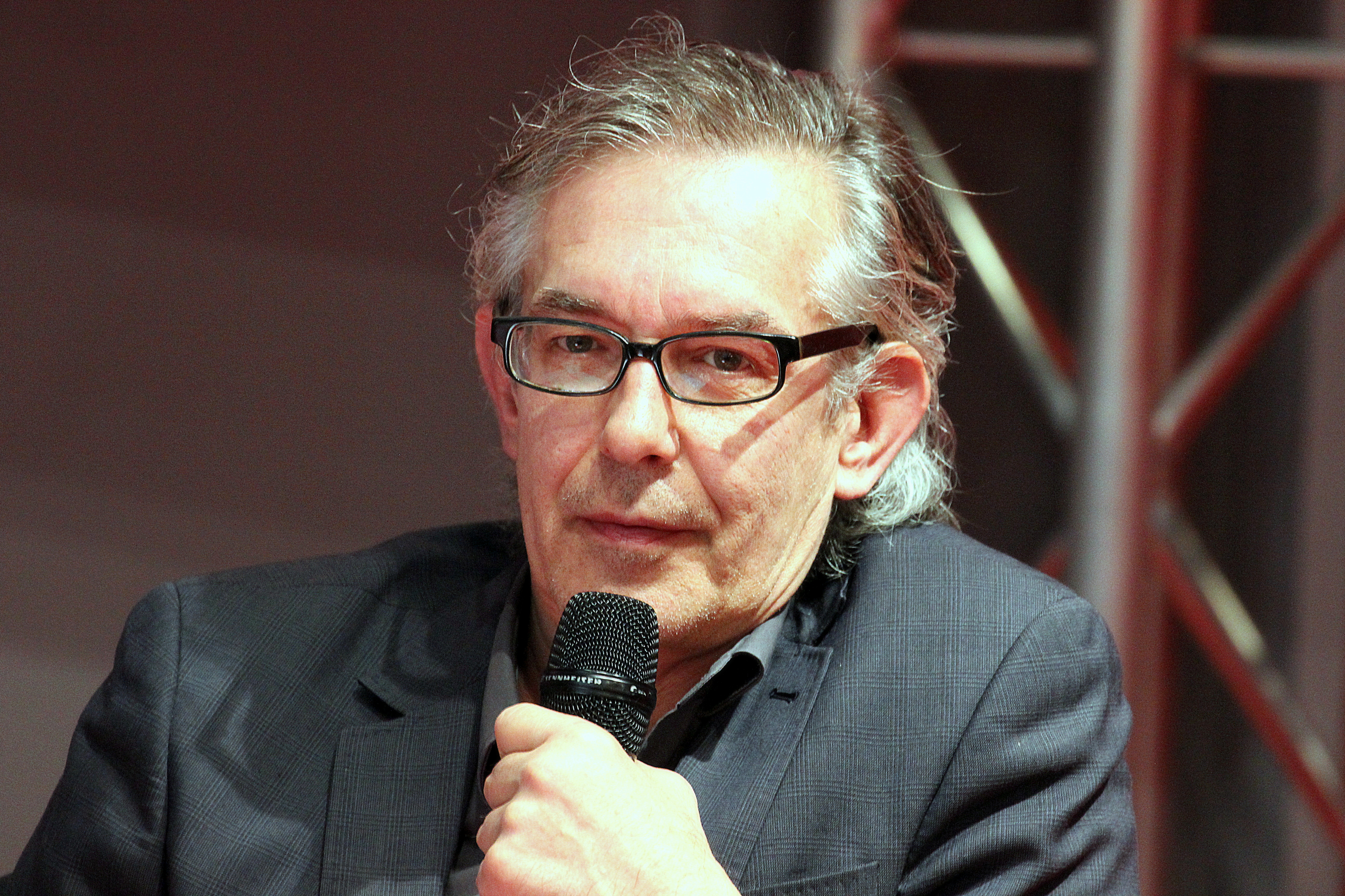 Ulrich Peltzer at Frankfurt Book Fair 2015